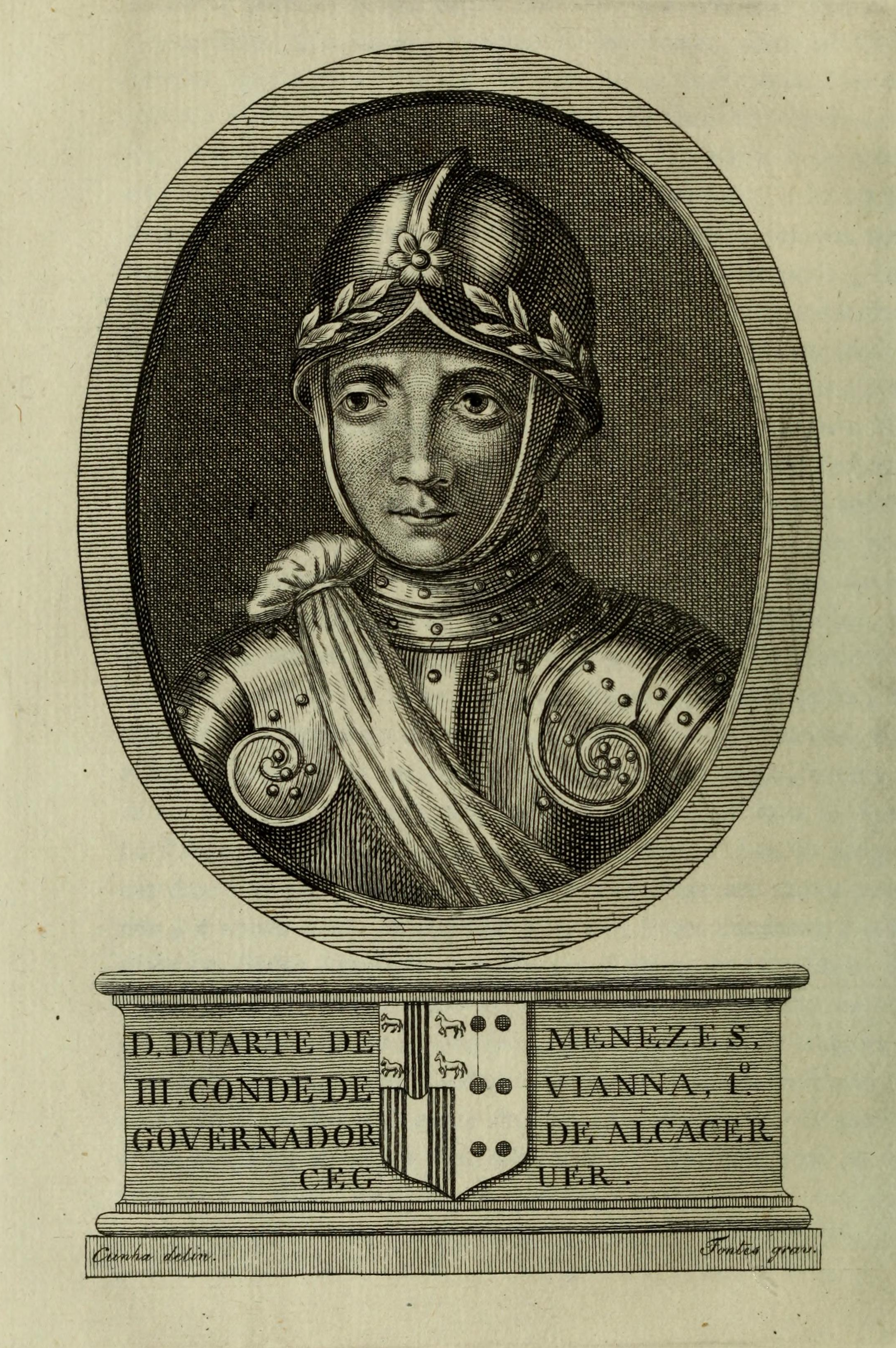 D. Duarte de Menezes (1414-1464), Count of Viana, 1st Governor of Ksar es-Seghir.